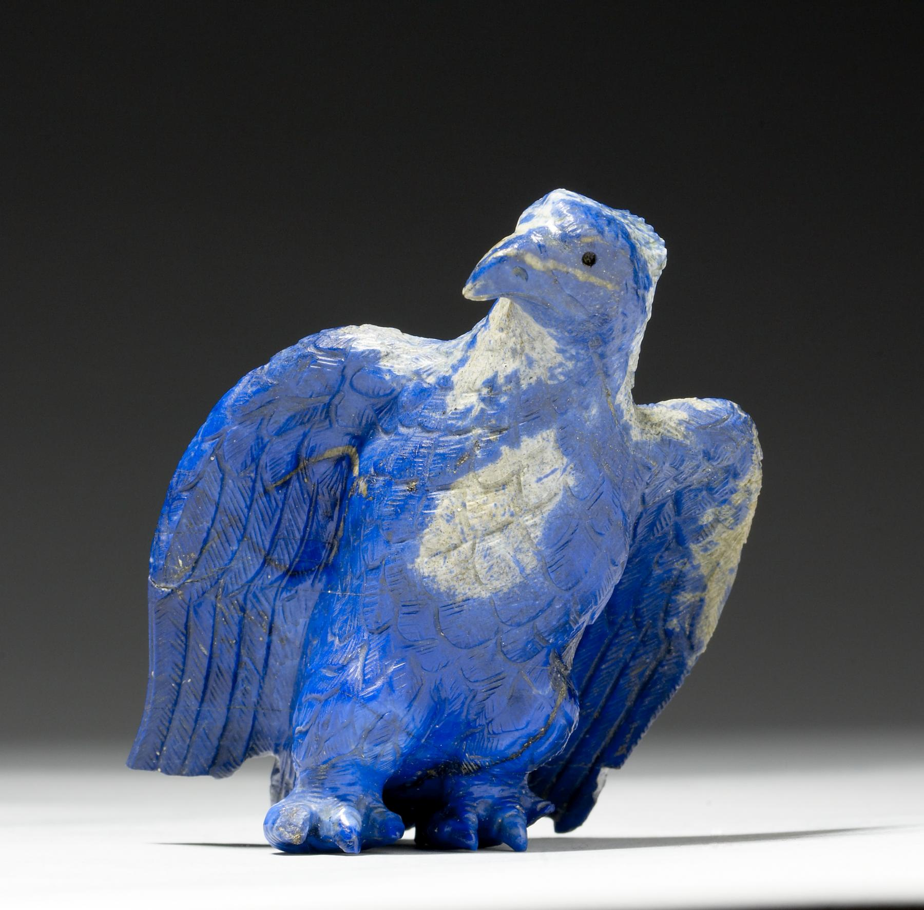 A rare example of the gem-carver's art is this lapis lazuli eagle, possibly the finial (top) of an imperial scepter. Lapis enjoyed great popularity in the late Roman and Early Byzantine periods as its rich purple-blue color was associated with royalty. From the 3rd century on, the emperor, often appears on coins and medallions carrying an eagle scepter, emblem of victory and authority.